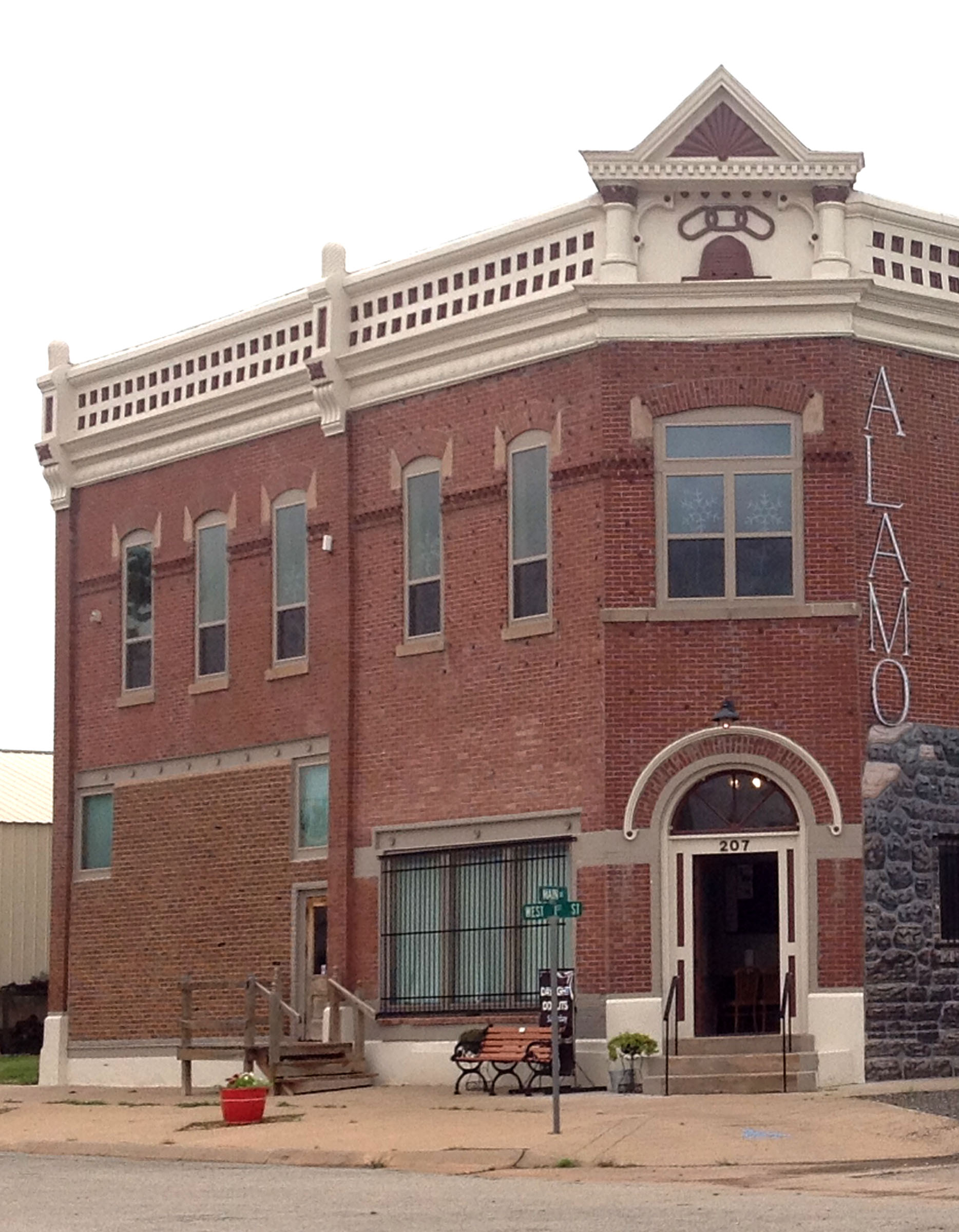 Norwich, Kansas, IOOF building